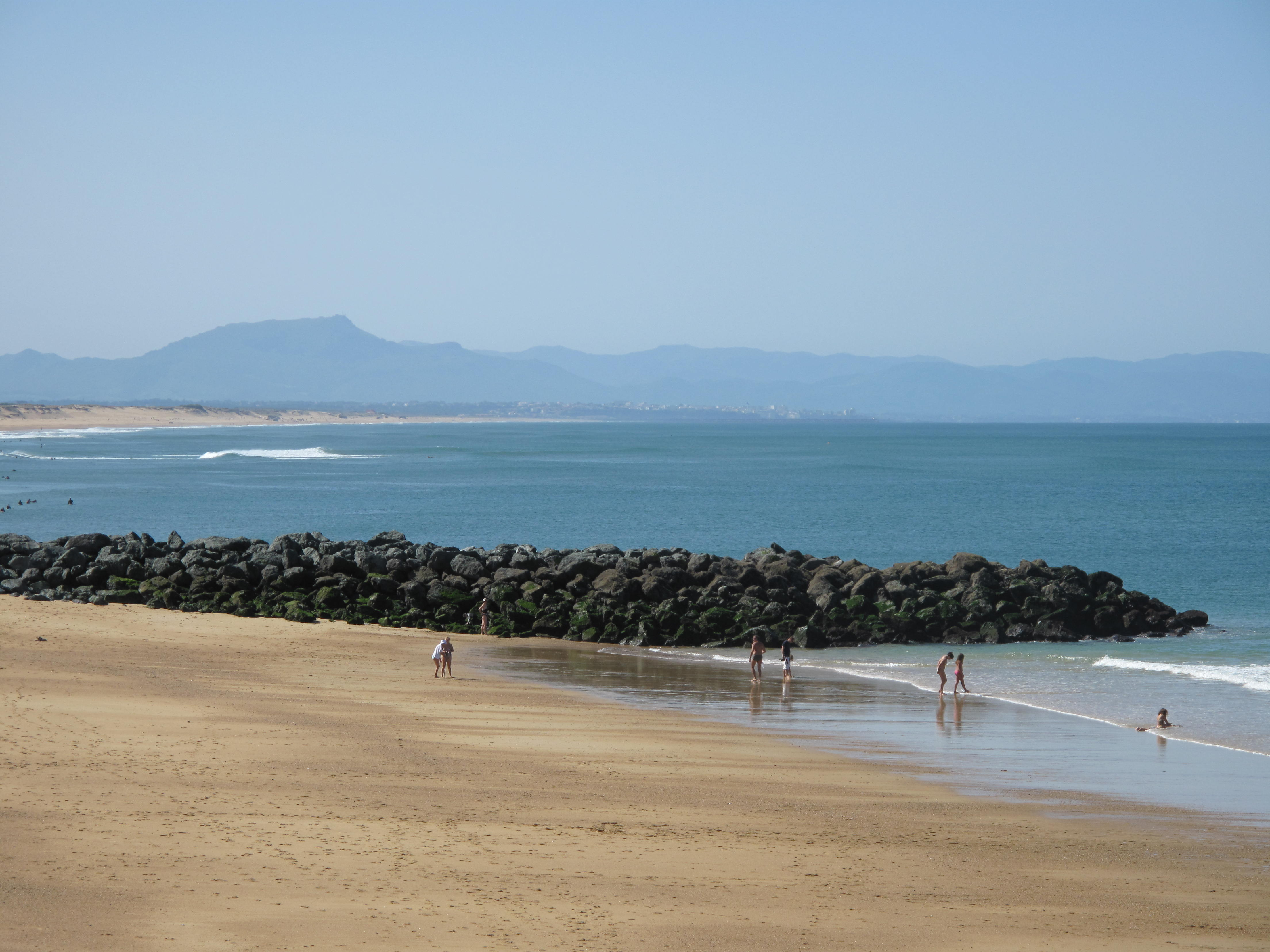 Beach "du Prevent" at Capbreton, Landes, France. With a groyne, method of coastal defense against erosion